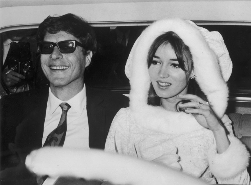 Rome (Italy), December 10, 1966. From left to right: John Paul Getty Jr. (1932–2003) with his second wife, Talitha Pol (1940–1971), immediately after their wedding at the City Hall.